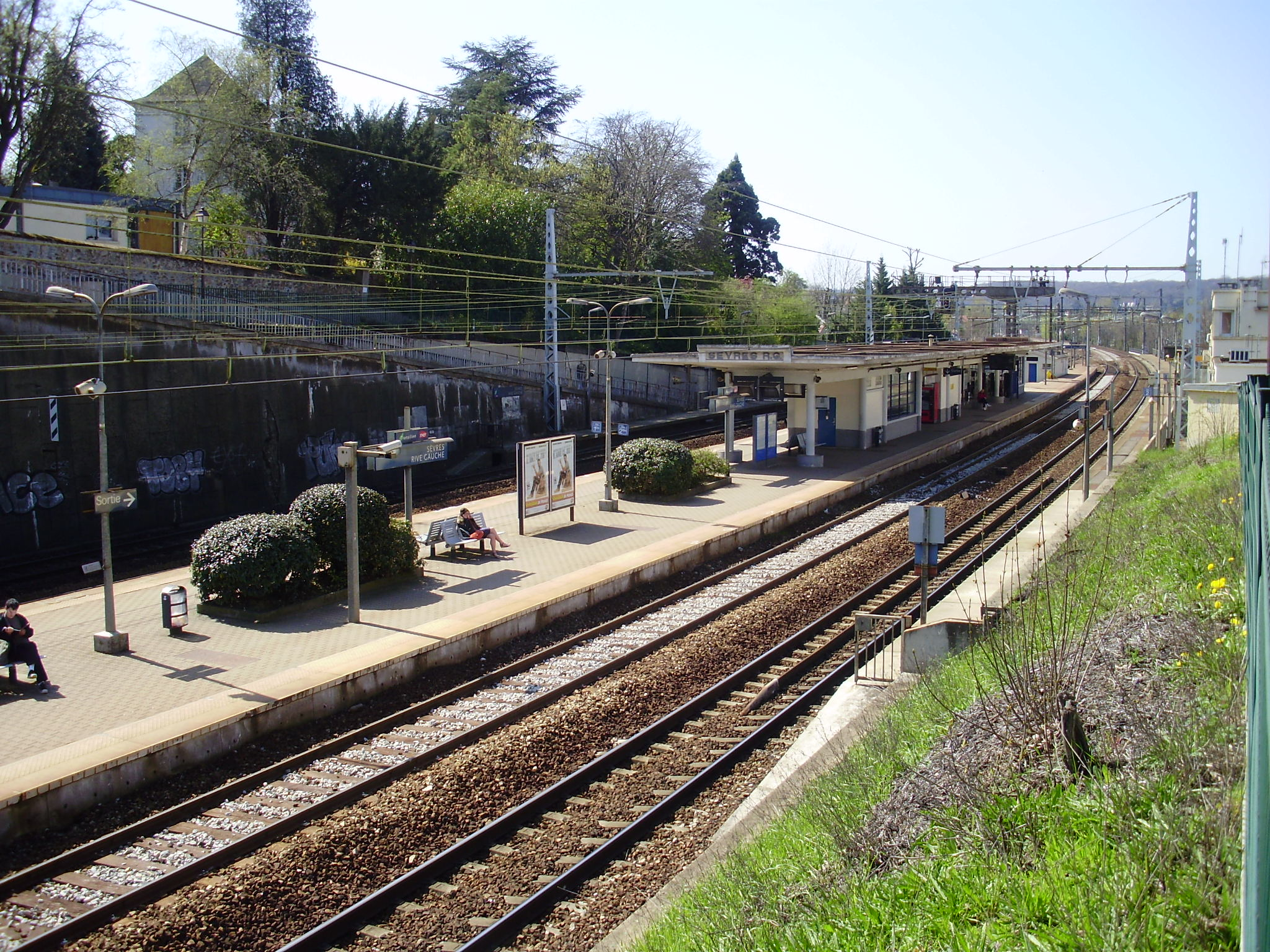 Sèvres-Rive-Gauche station - central platform, Hauts-de-Seine, France